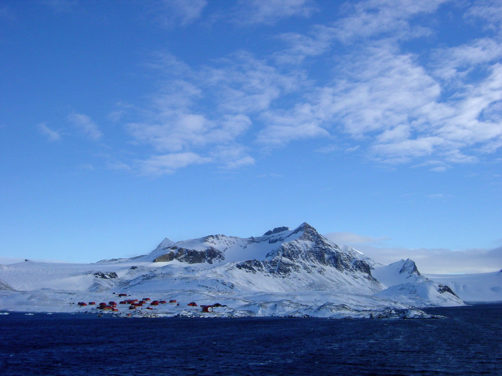 A base camp for observing penguins and marine mammals as well as other scientific observations. 2001-2002 austral summer. Photographer: Dr. David Demer, NOAA/NMFS/SWFSC/AMLR.